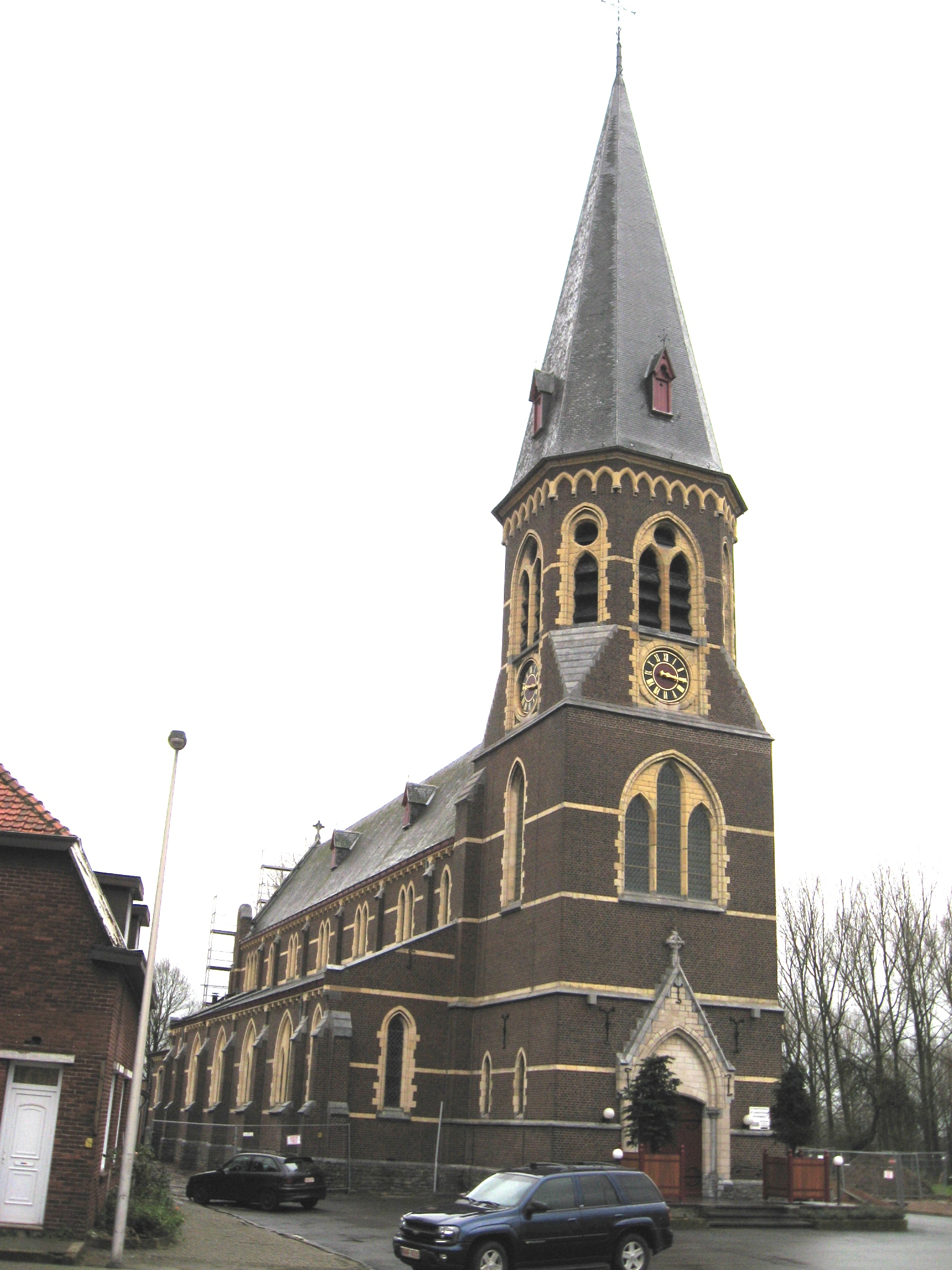 Church of Saint Christopher in Opgrimbie, Maasmechelen, Limburg, Belgium